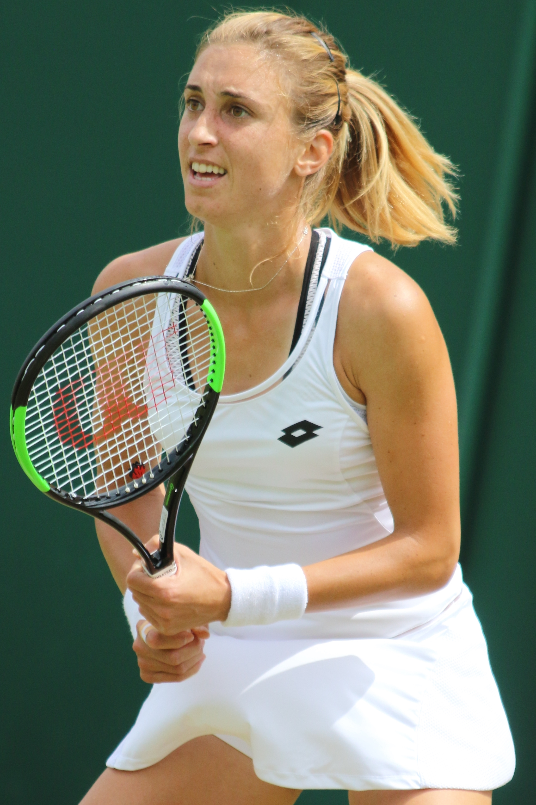 Martic WM17 (5)